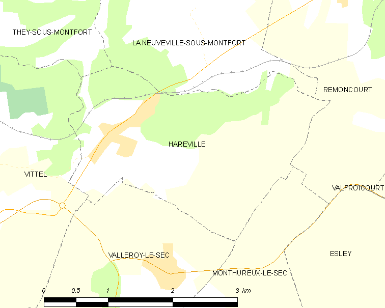 Map of French municipality Haréville